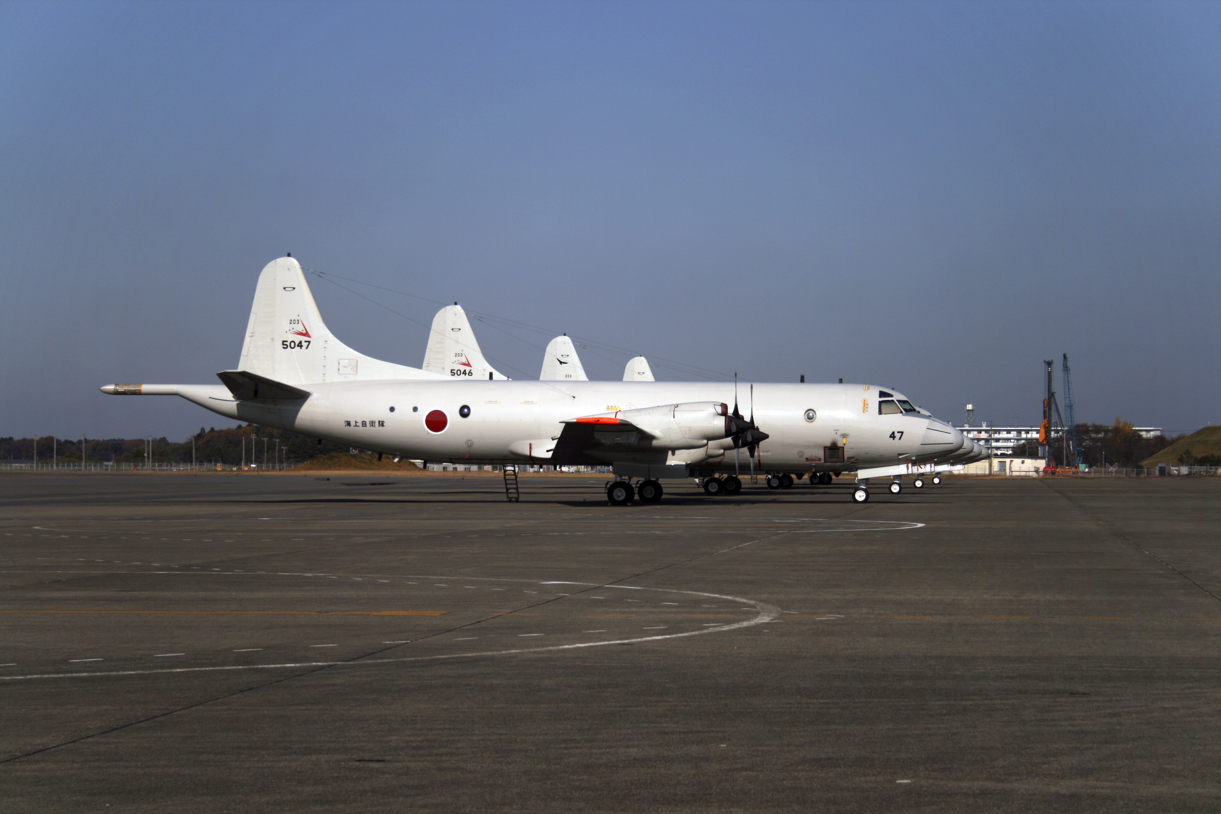 P-3Cs at JMSDF Shimofusa Air Base.